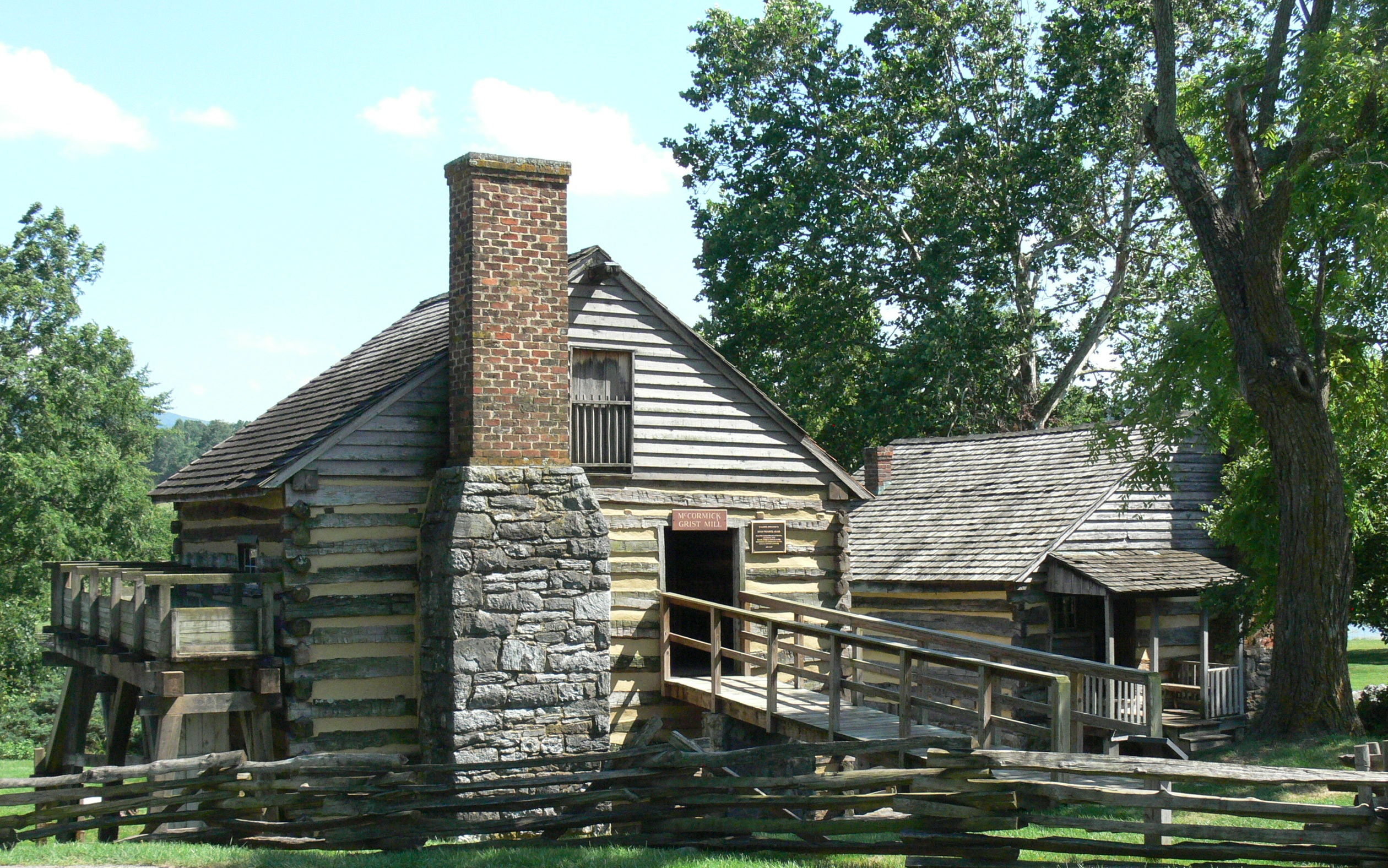 Photograph (cropped) of the Cyrus McCormick Farm in Rockbridge County, Virginia, near Steele's Tavern. At right is the blacksmith's shop, at left, the grist mill. The blacksmith shop was used in building McCormick's mechanical reaper. Object location37° 56′ 02″ N, 79° 13′ 04″ W